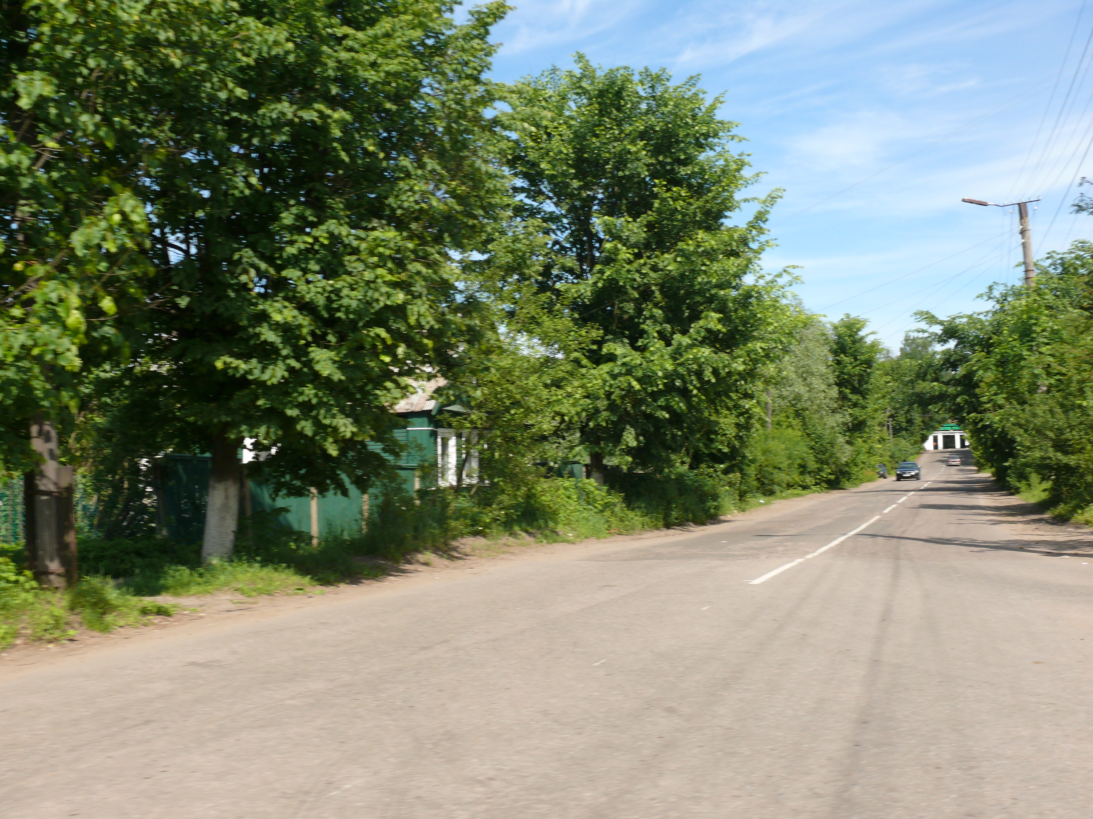 Svarog street in Staraya Russa. Novgorod oblast, Russia